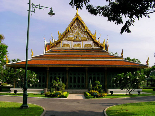 Samaggi Mukhamataya Hall in Sanam Chandra Palace, Nakhon Pathom provonce ,Thailand